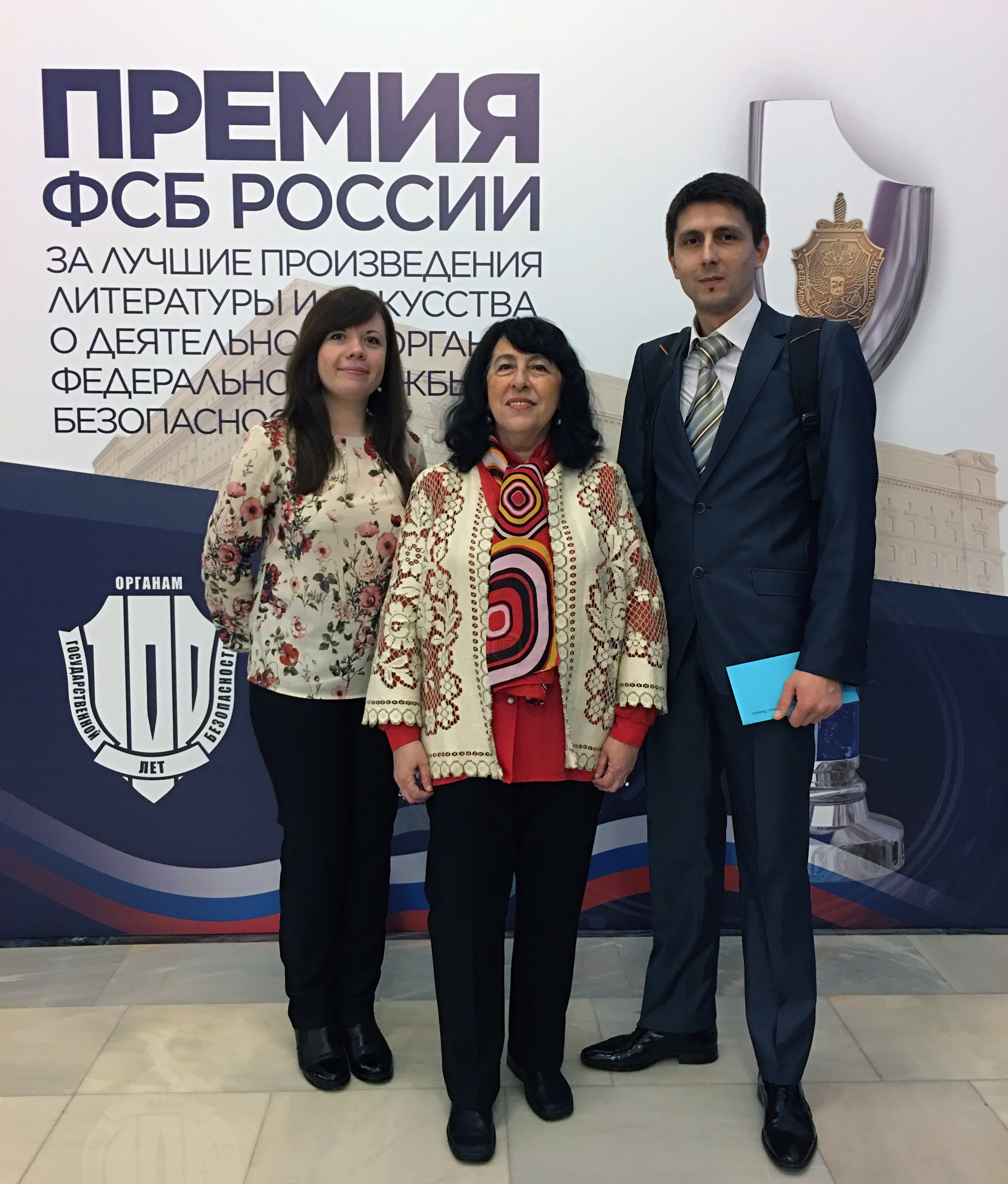 Ансамбль Гренада - лауреат премии ФСБ 2017г. Татьяна Владимирская - руководитель ансамбля, Татьяна Вяткина, Алексей Зубрев.